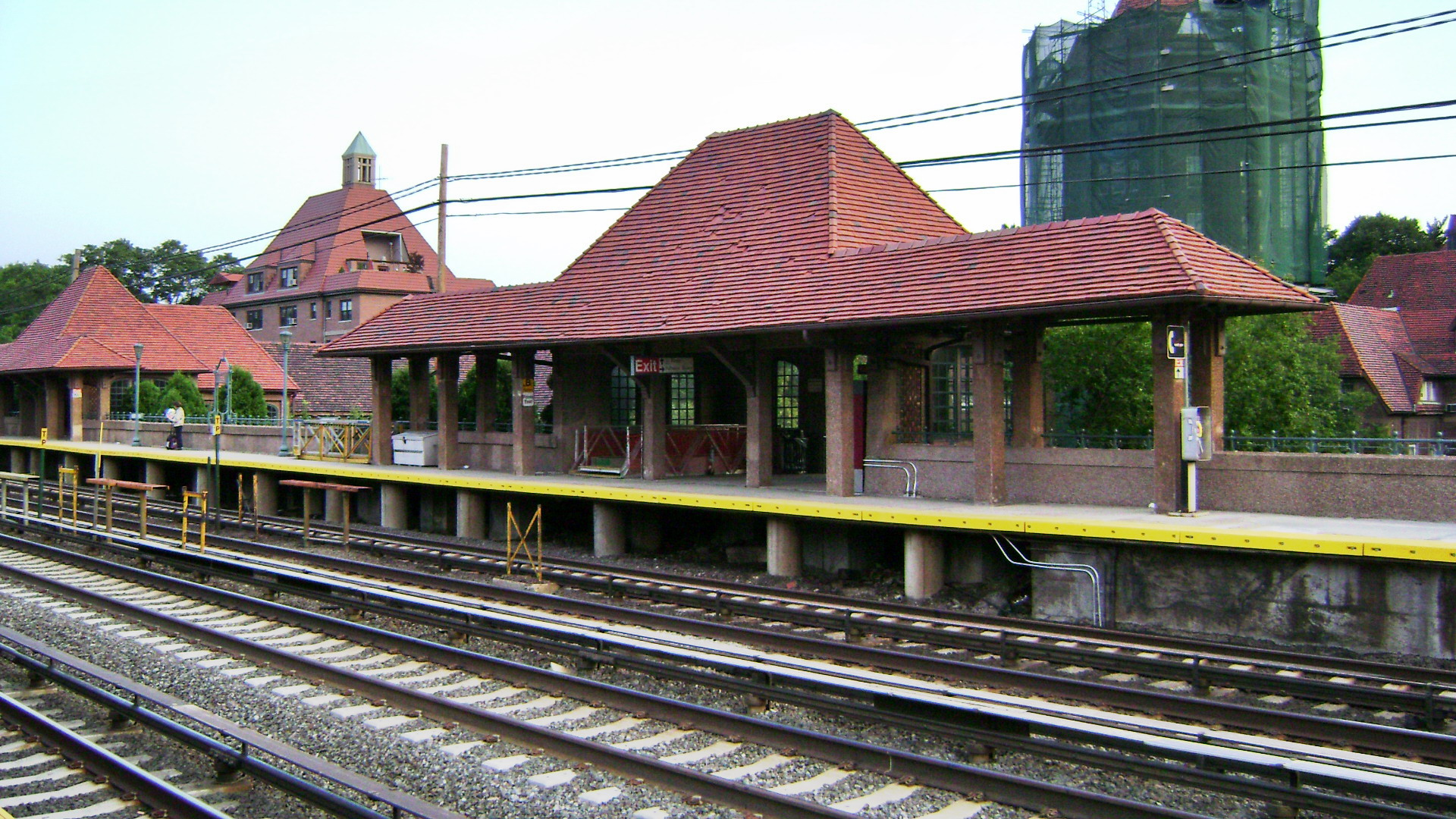 The Forest Hills Long Island Rail Road station, in Forest Hills, Queens.